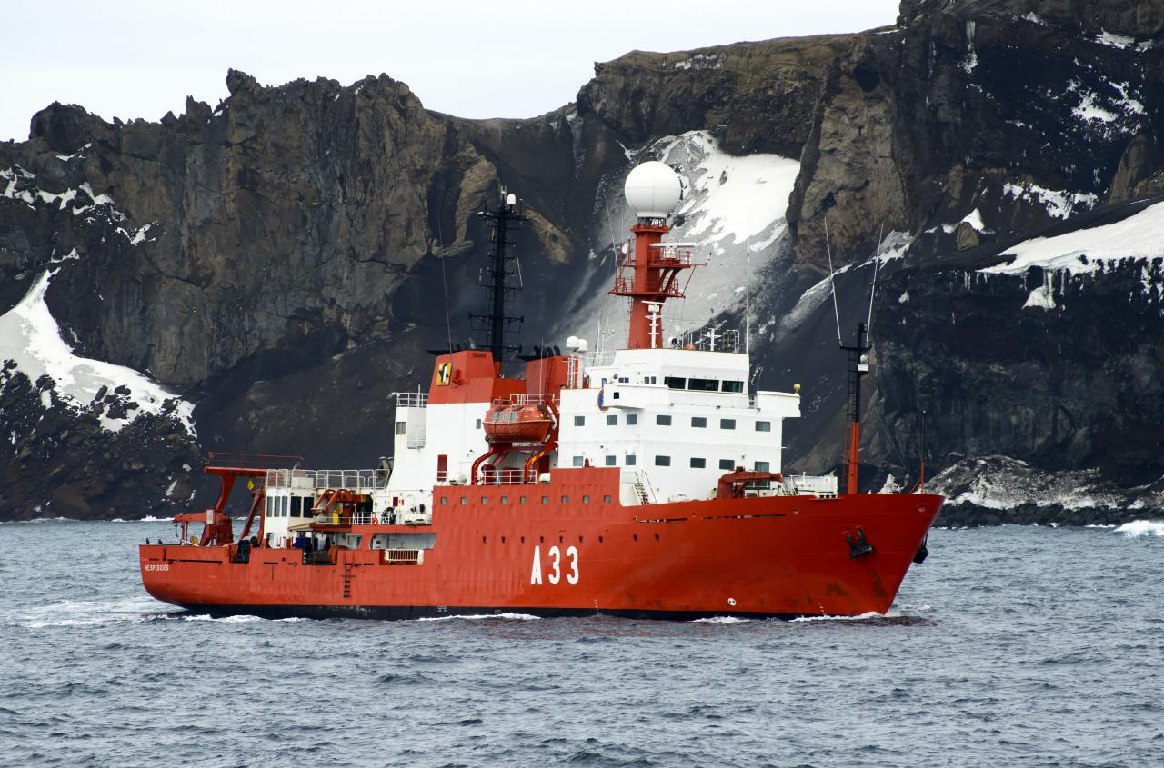 IMO 8803563, A33 Hesperides in Deception Island, Antarctica.